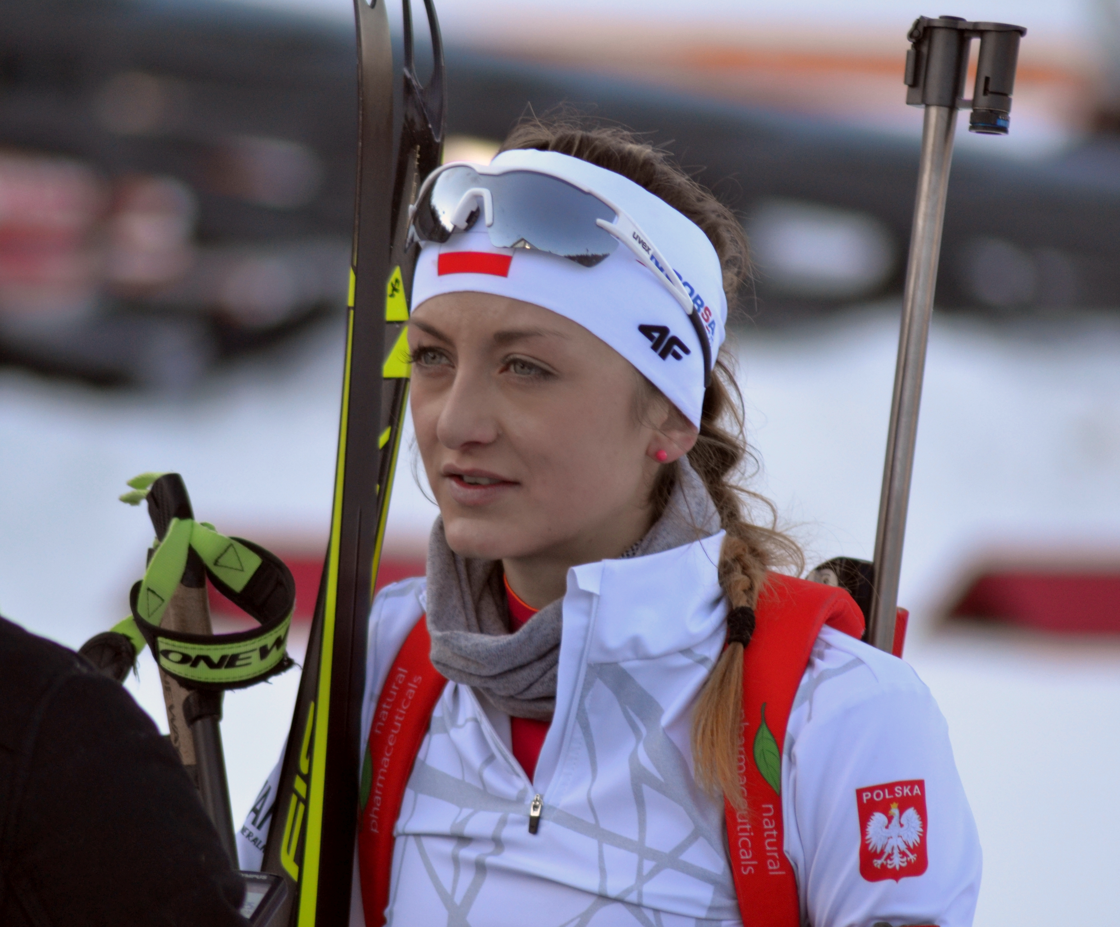 Open European Championships Biathlon 2017, Sprint Women's race, held on January 27th.